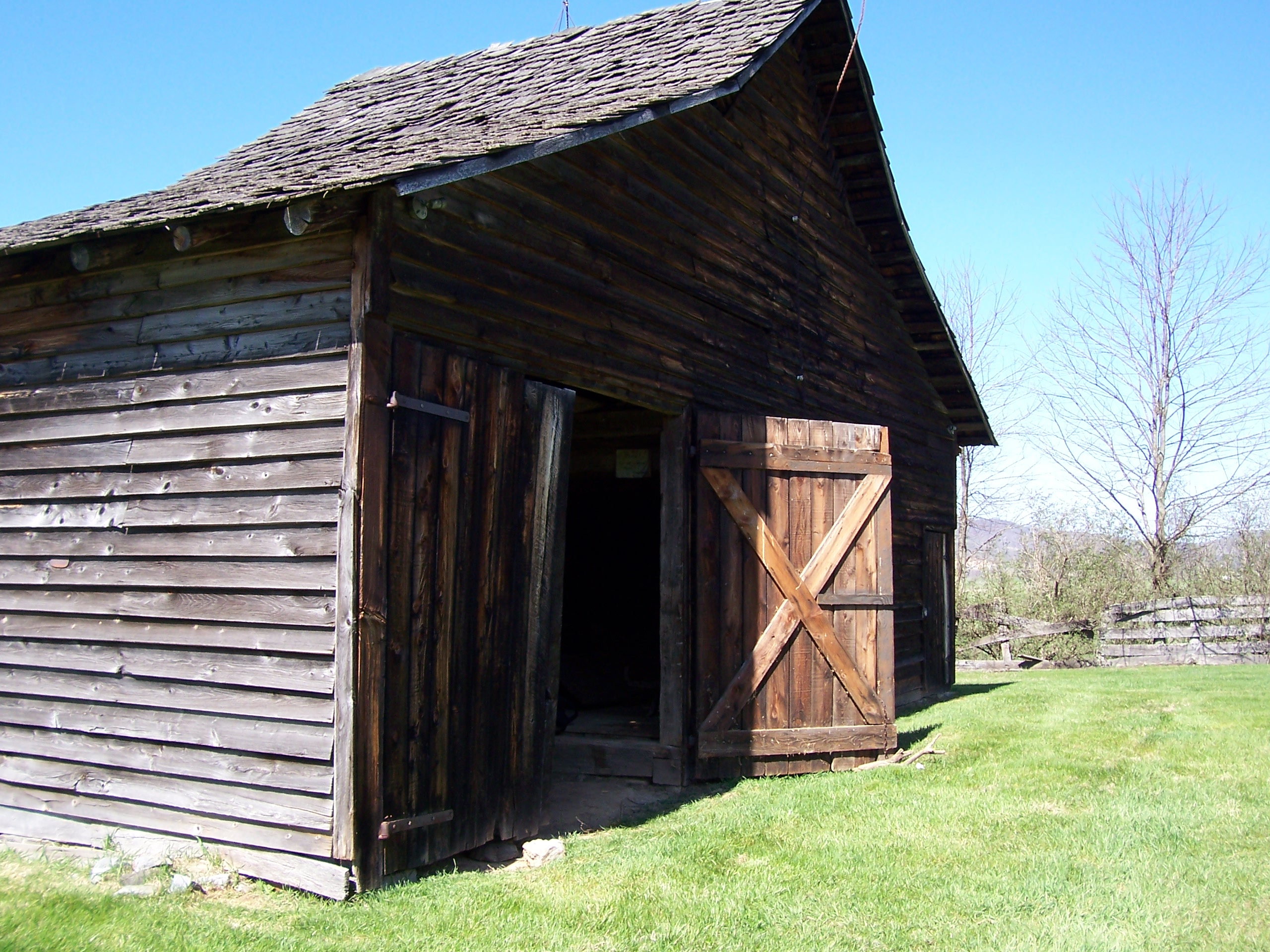 The Barn at the Pearl S. Buck Birthplace in Hillsboro, West Virginia